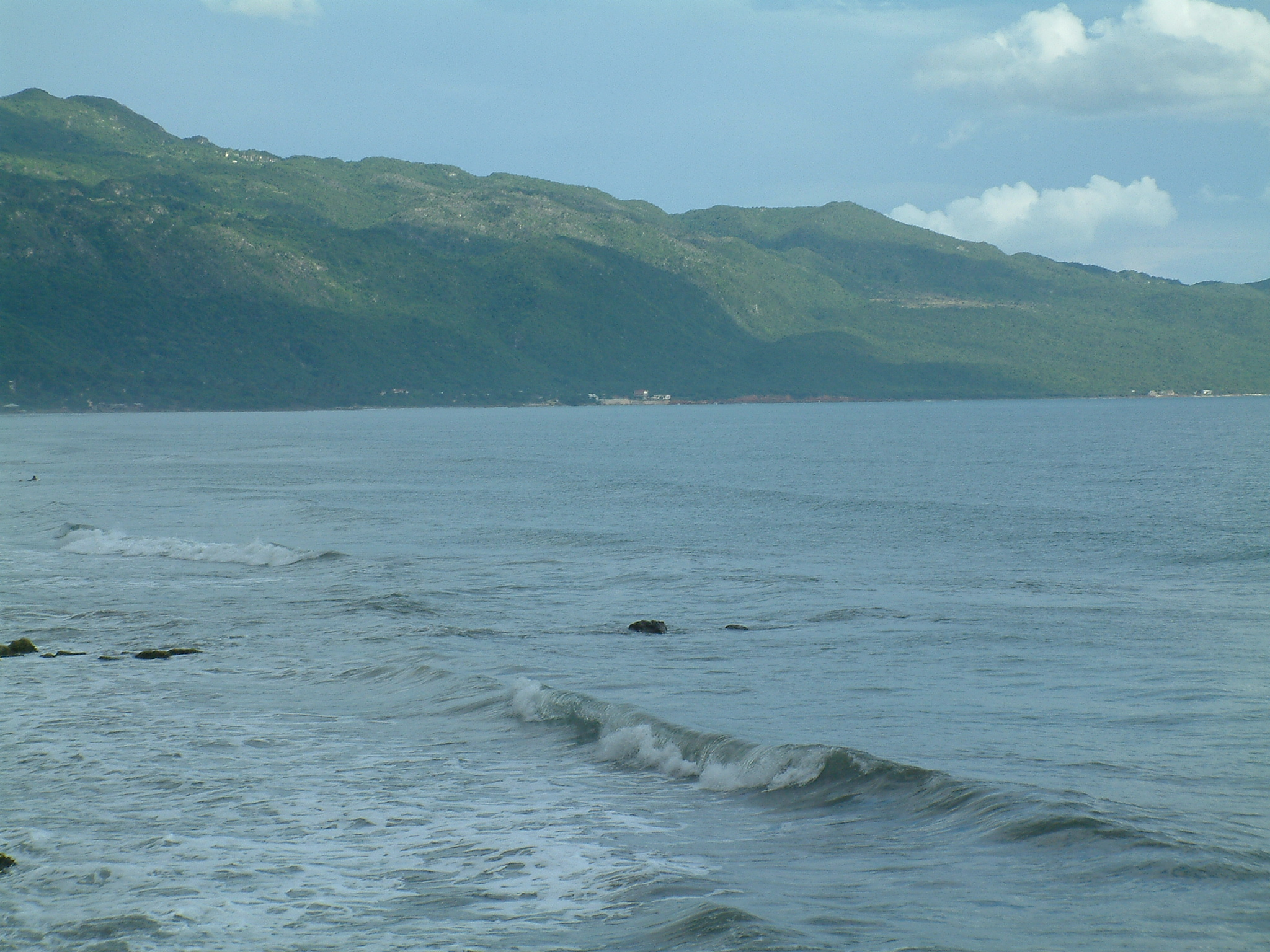 Hill side above Aligator Pond, Manchester, St Elizabeth, Jamaica. Taken from nearby Aligator Pond River.